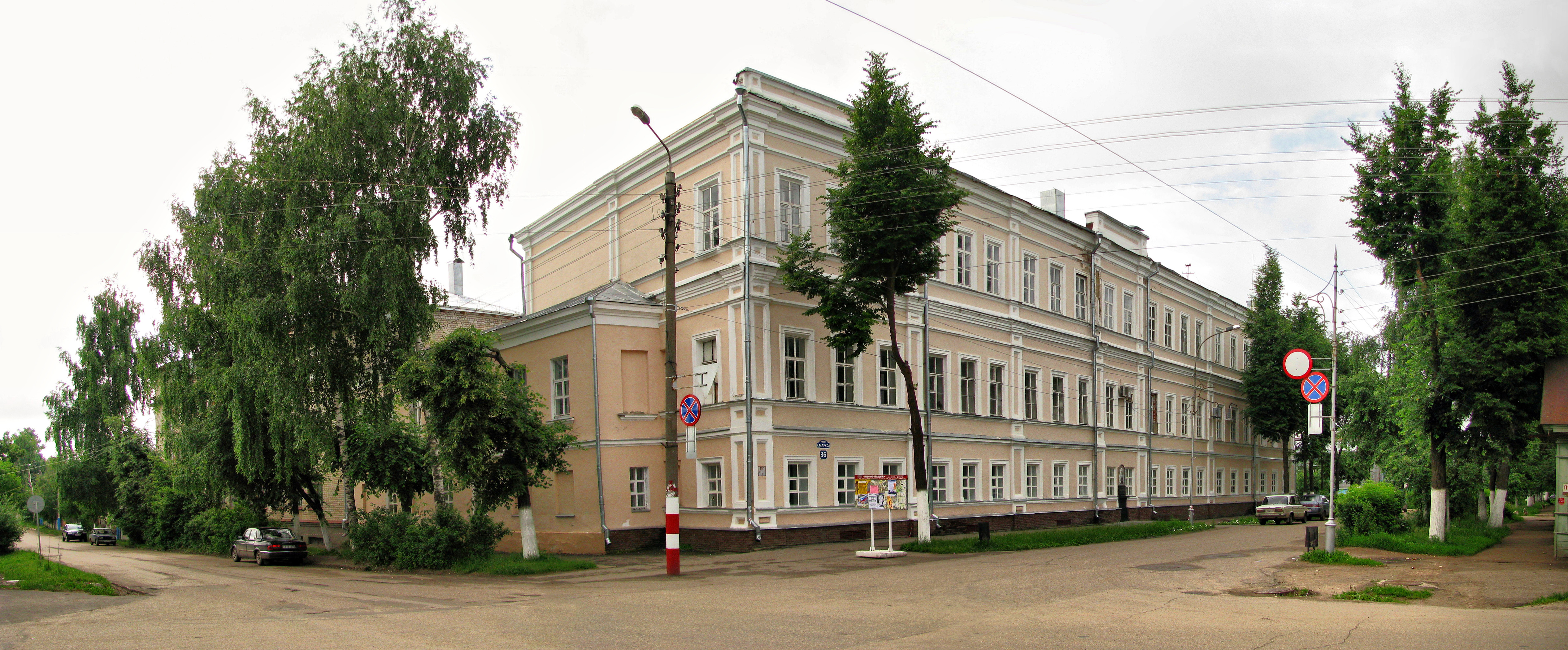 Arzamas state pedagogical institute